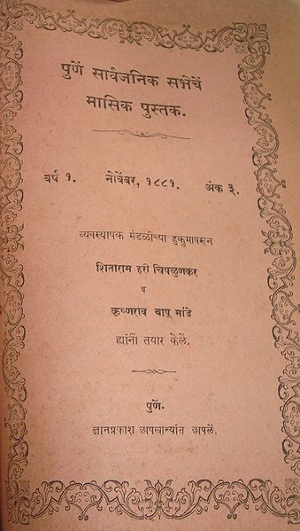 Photograph of front page of monthly journal of Poona Sarvajanik Sabha dated November 1881